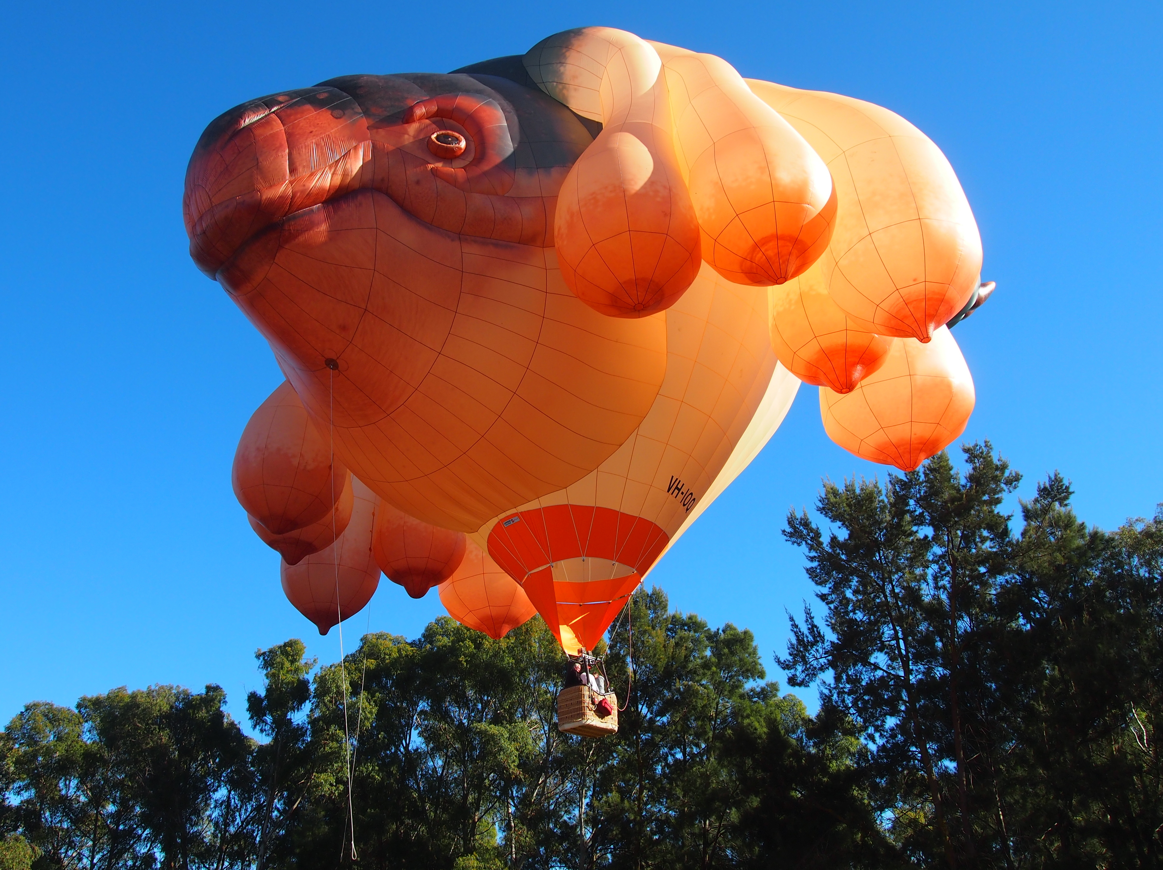 The balloon "Skywhale" designed by Patricia Piccinini taking off on its first flight over Canberra